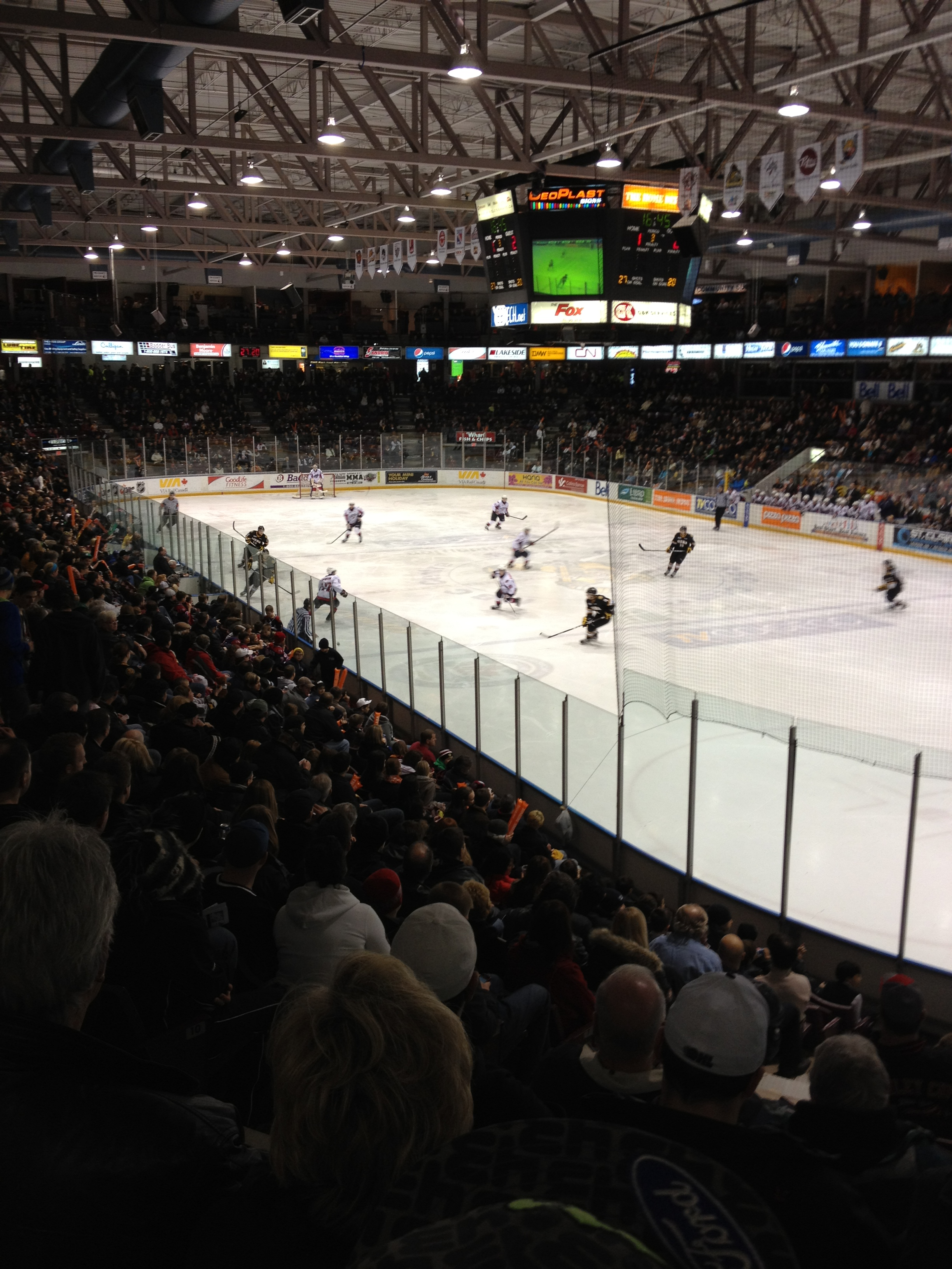 Sarnia Sting vs. Windsor, Jan. 20th, RBC Center, Sarnia